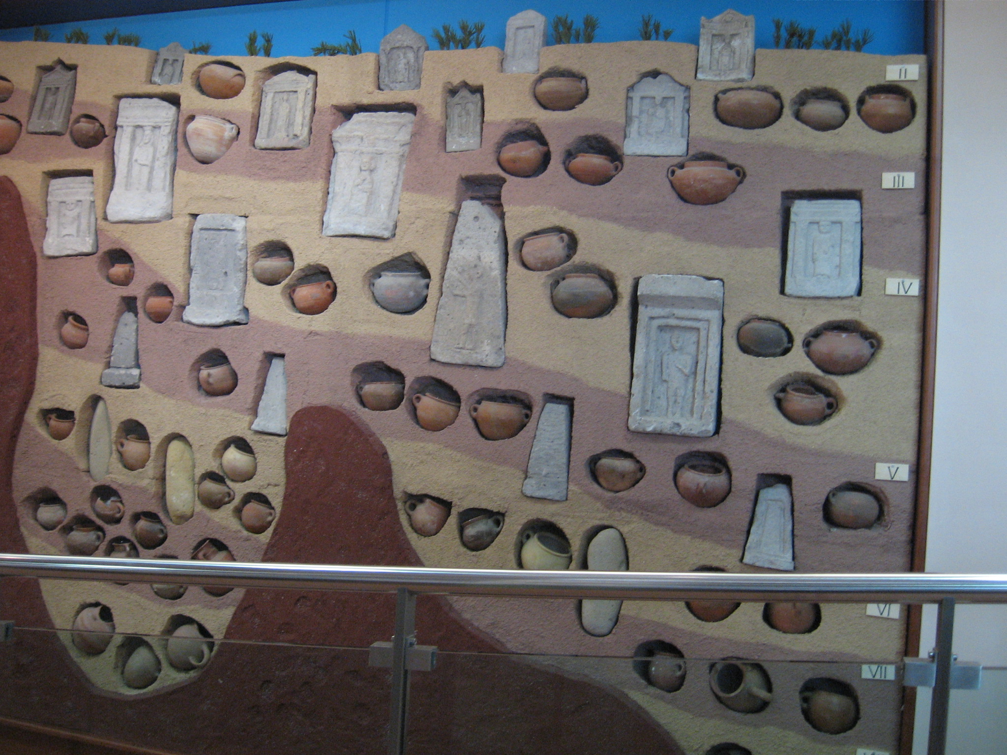 tofet di _Sant'Antioco reconstruction